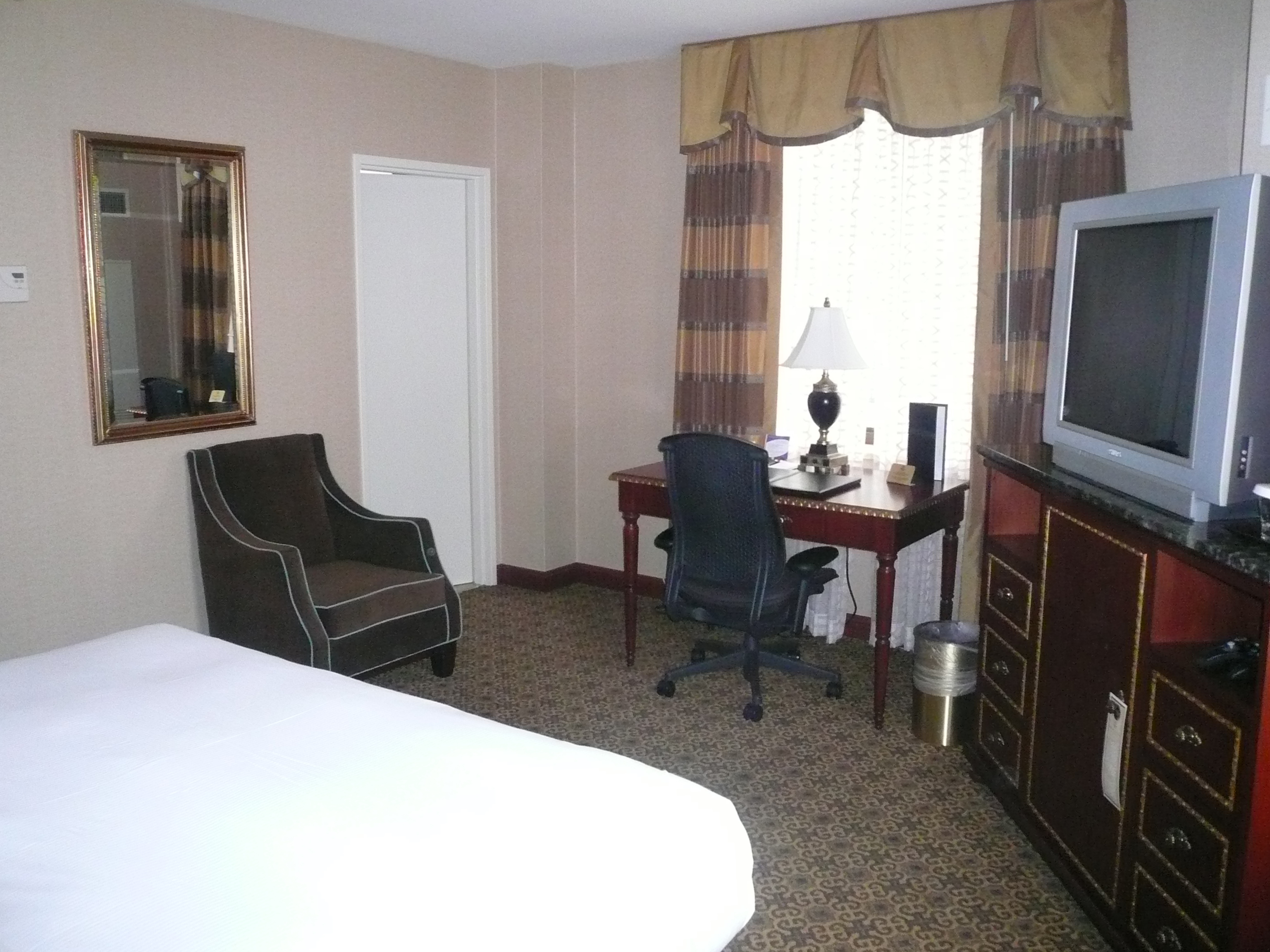 Chicago Hilton hotel room